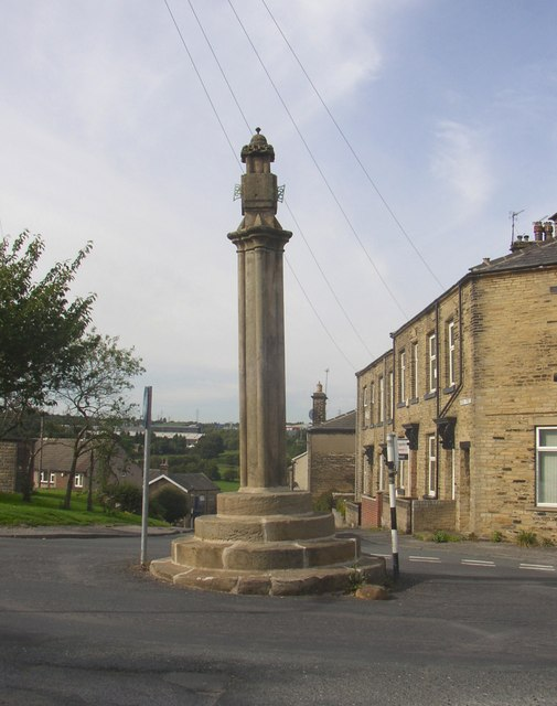 The Oakenshaw Cross, Wyke Lane, Oakenshaw Frank Peel, writing in 1893, did not know the history of this monument but guessed correctly that it was erected by the lord of the manor, Dr Richardson of Bierley Hall. It had four sundials, of which at least two survive as the styles can be seen sticking out from the stone. There was originally a weather-vane.